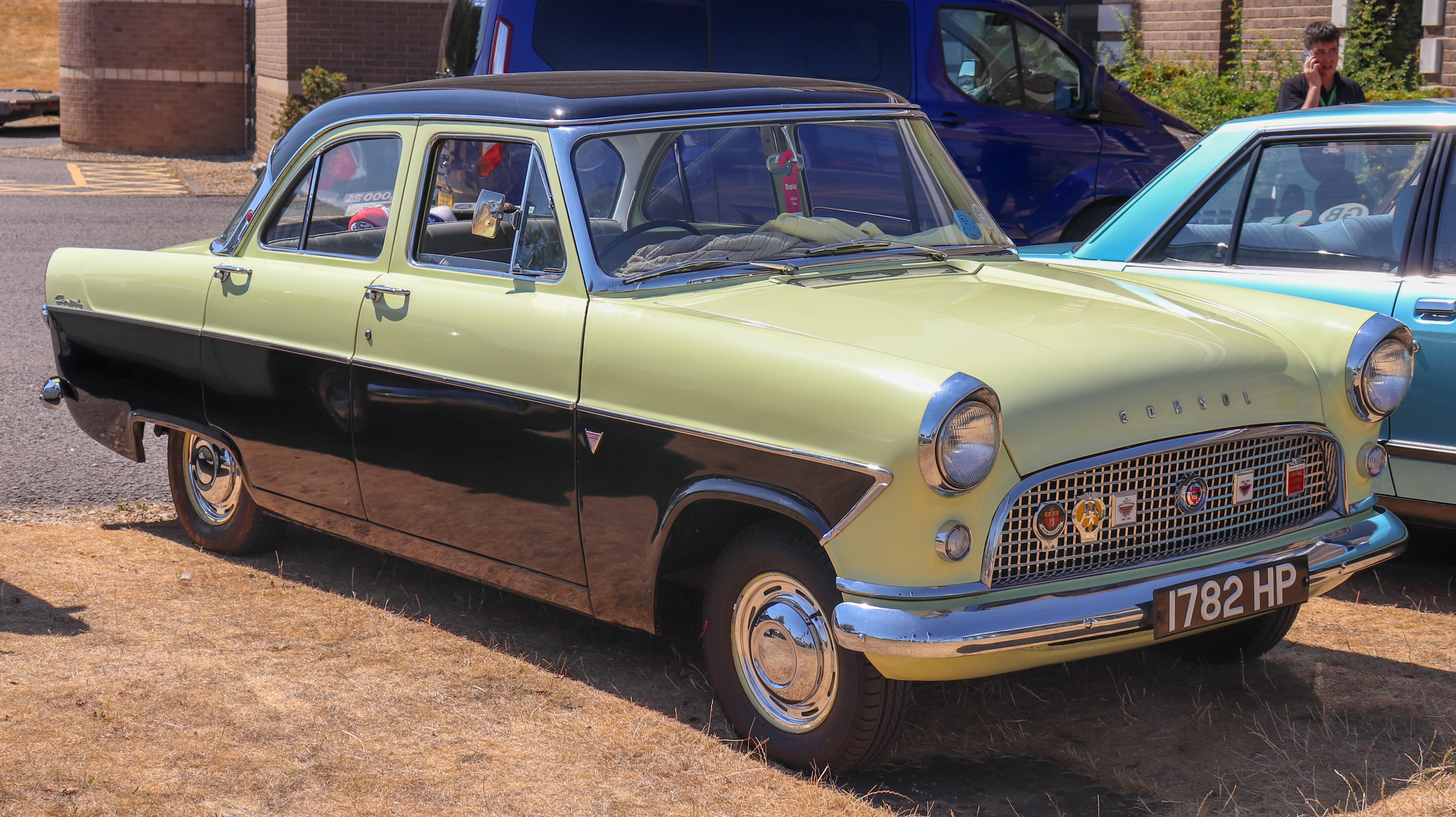 1960 Ford Consul Mark II Deluxe 1.7 Front Taken at the British Motor Museum Old Ford Rally 2018, Gaydon